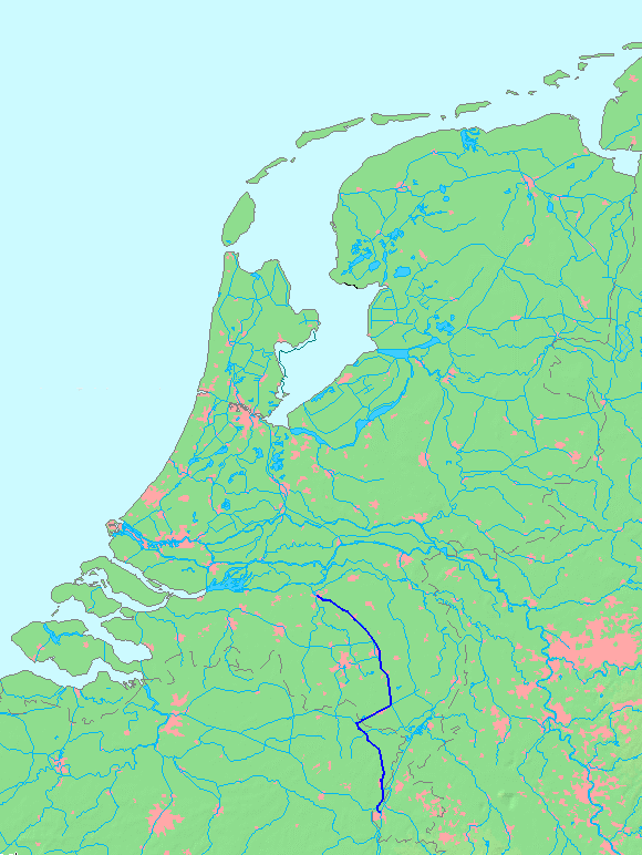 Location of a waterway (river/canal) in the Netherlends